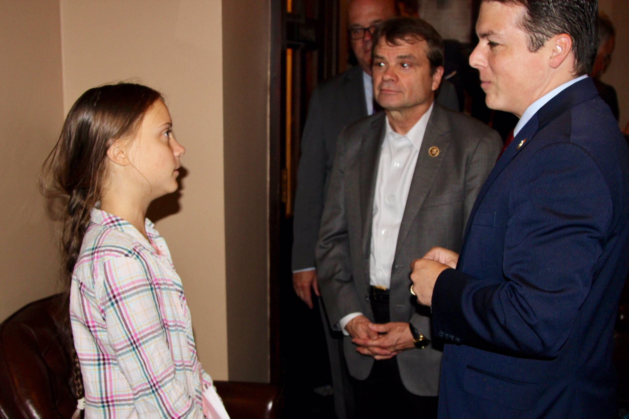 Today, I met 16 yr/old Swedish environmentalist @GretaThunberg. Greta sailed across the Atlantic Ocean to demonstrate the need to reduce emissions and draw attention to the global climate crisis we now face. I applaud Greta for her courage and blunt talk on this critical issue.